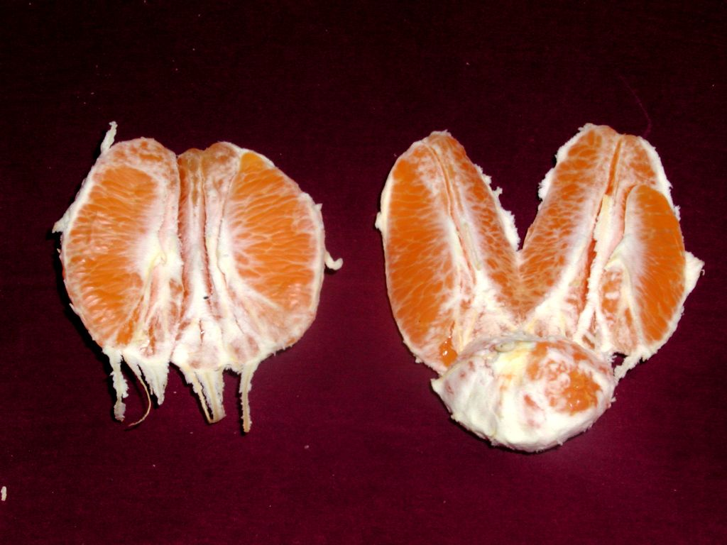 Sectioned navel orange taken Jan. 25, 2005 by Allen Timothy Chang